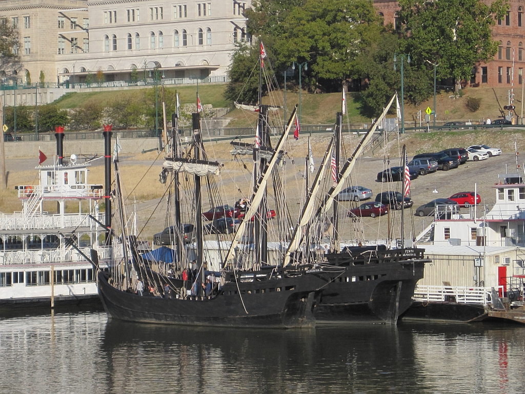 La Niña (in the foreground) & La Pinta (background), replicas of Columbus' ships in Memphis.